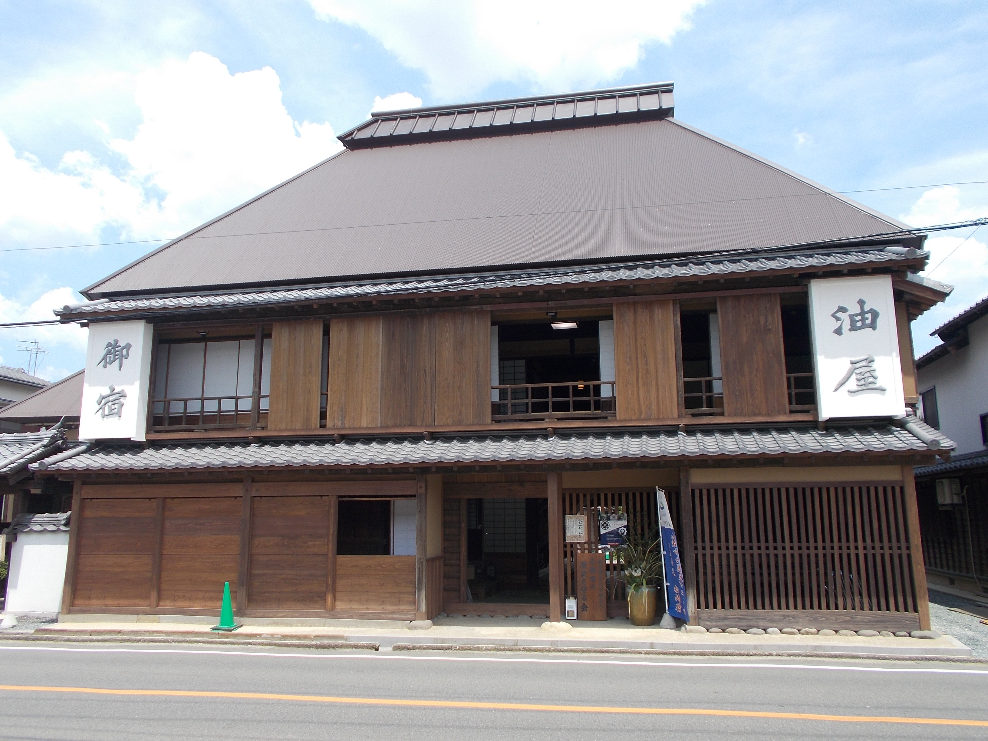 Matsuzaki-shuku's hatago, Ogori, Fukuoka, Japan